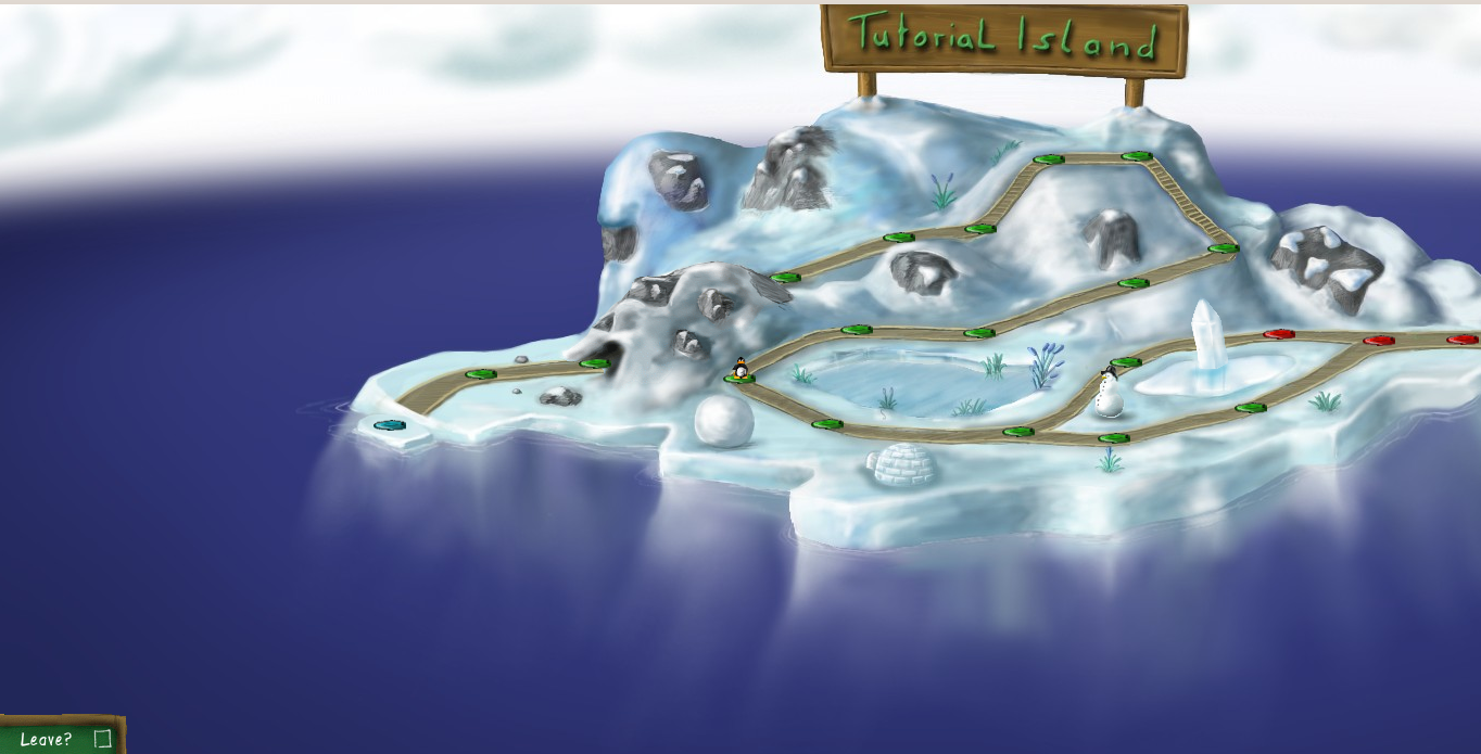 This is a screenshot of Tutorial Island in Pingus